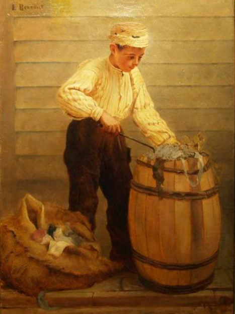 Enella Benedict - Young Boy at Work